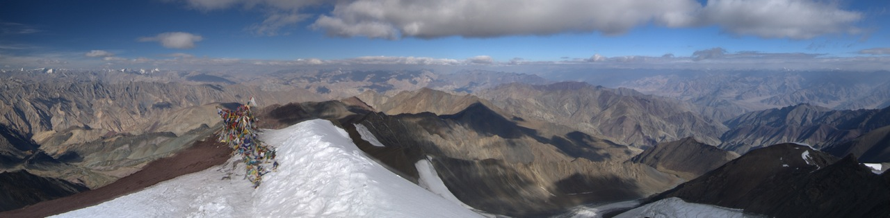 Ladakh from the peak of Stok Kangri